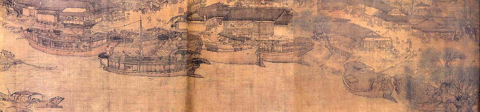 Portion of the Chinese cityscape handscroll Along the River During Qingming Festival, ink and colors on silk, 25.5 × 525 cm.